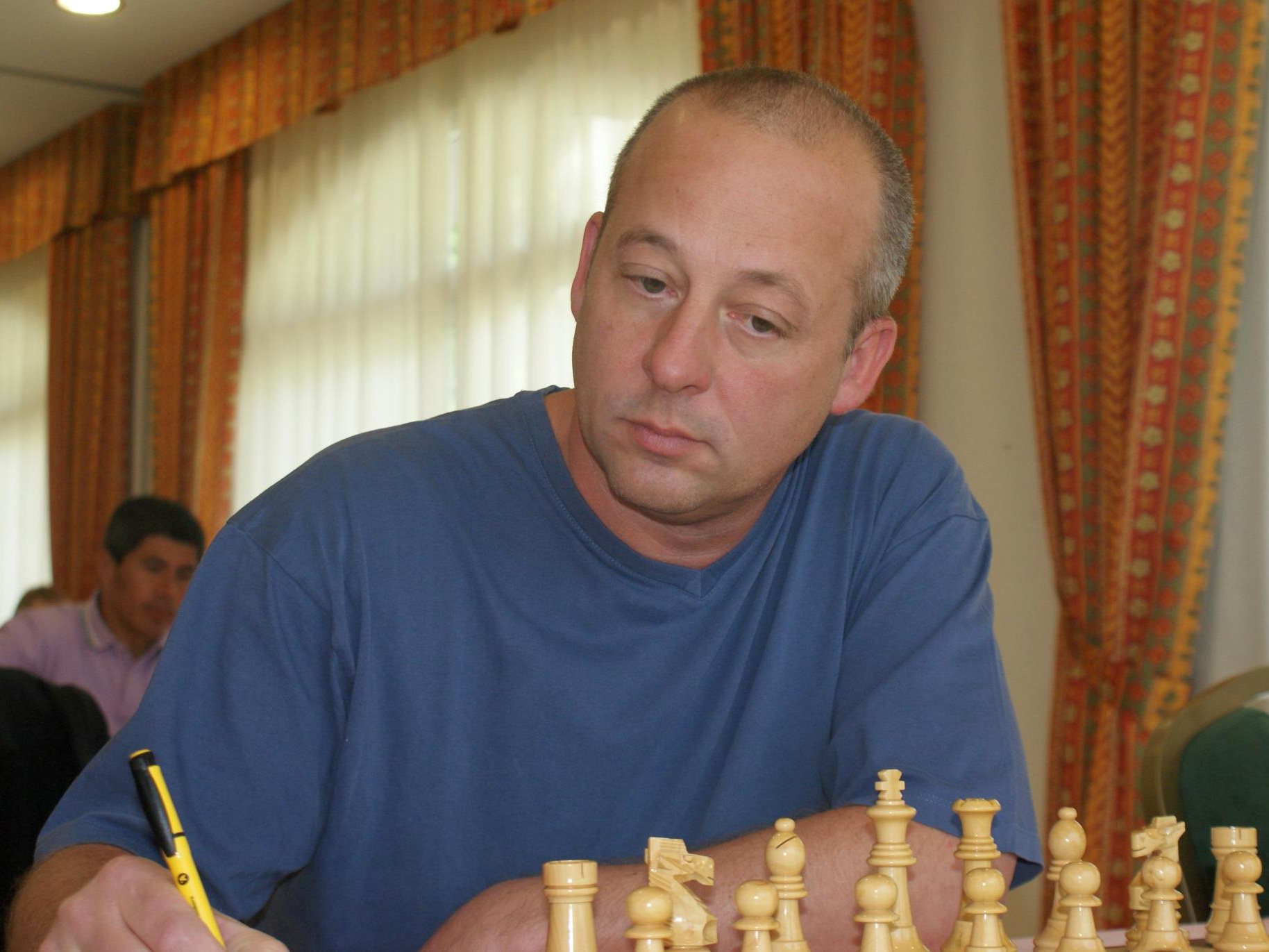 GM David Norwood, 30 Open Internacional d'Andorra, Hotel Sant Gothard, Ronda 6 - 26/07/2012